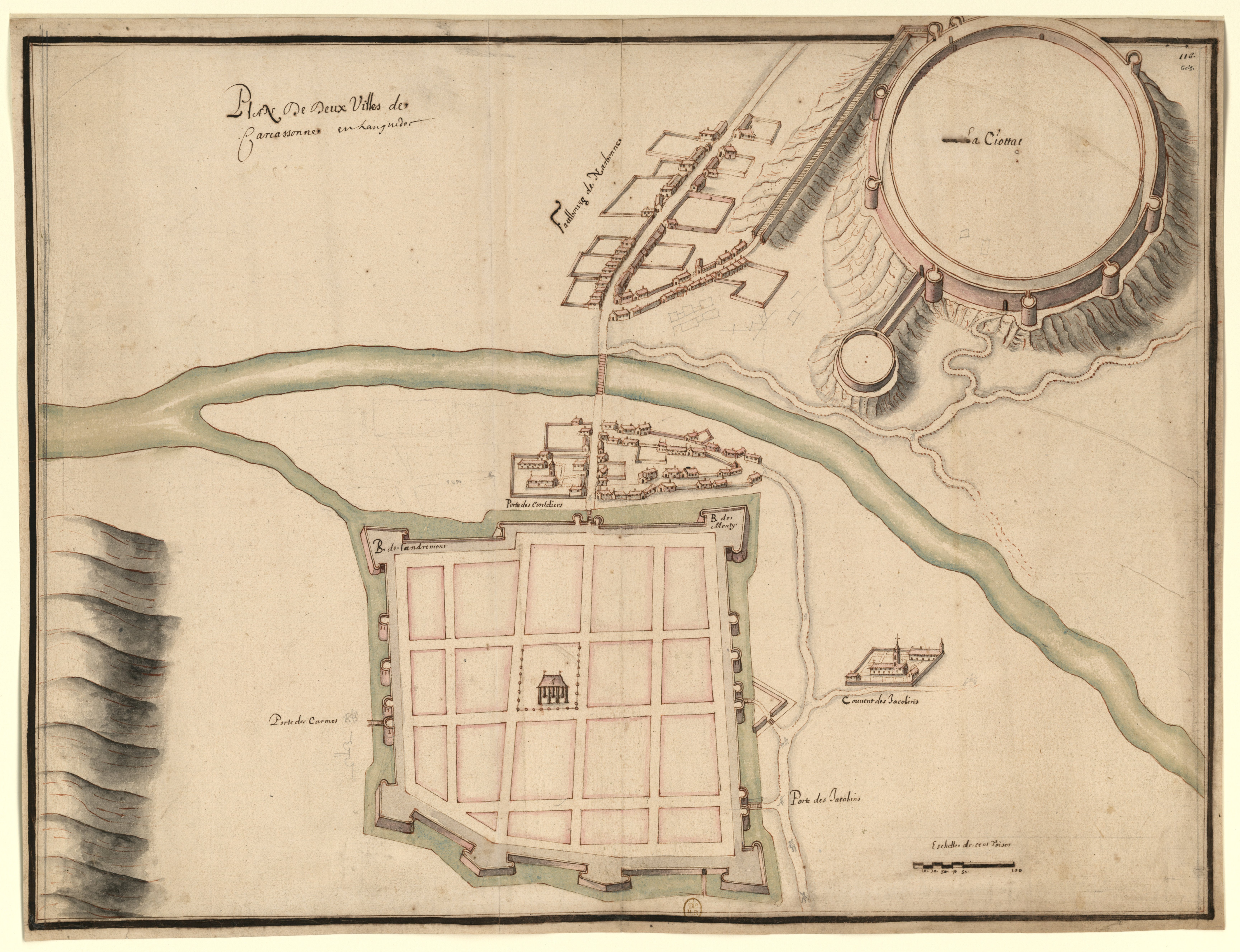 A plan of the Occitan city of Carcassona (17th century)